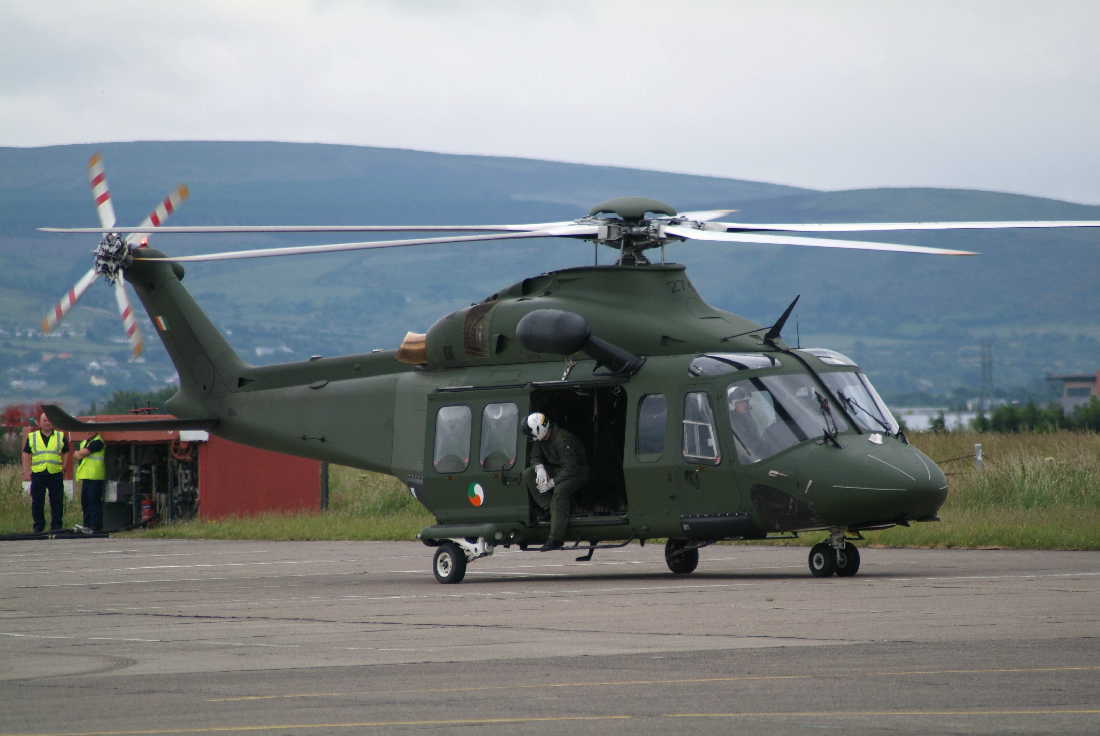 This is the EMS version of the AW.139 and had only just been delivered when I snapped it at its base last June